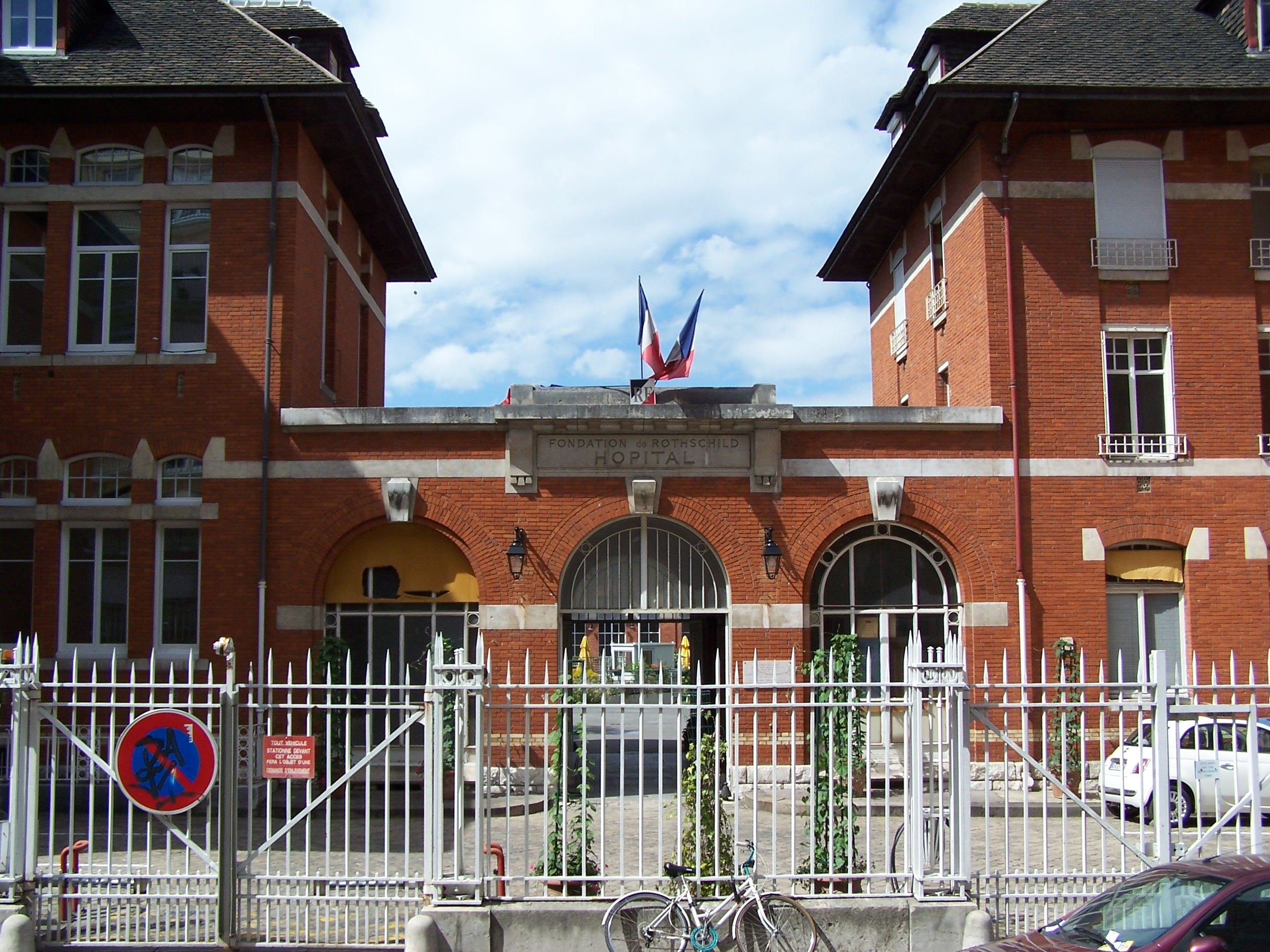 Historical buildings of the Hôpital Rothschild at rue Santerre in Paris